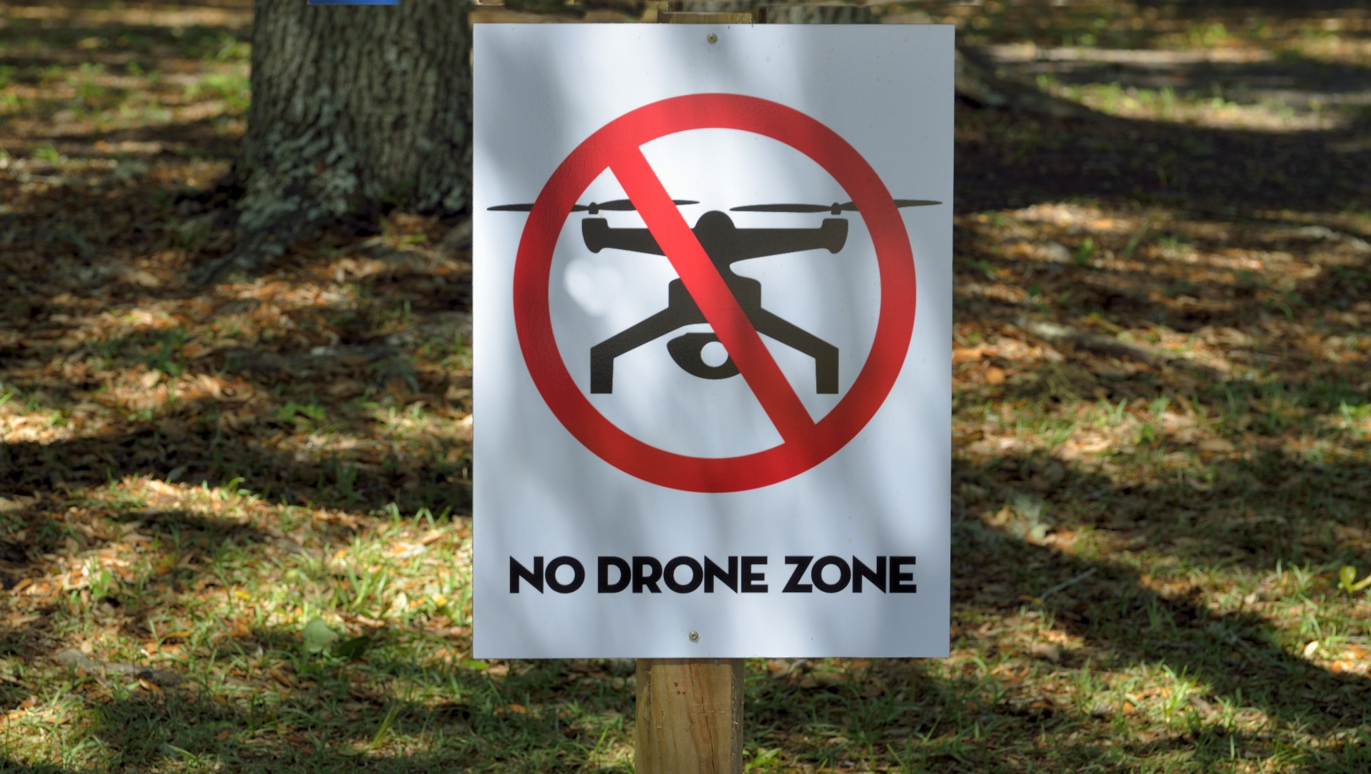 No drone zone area sign